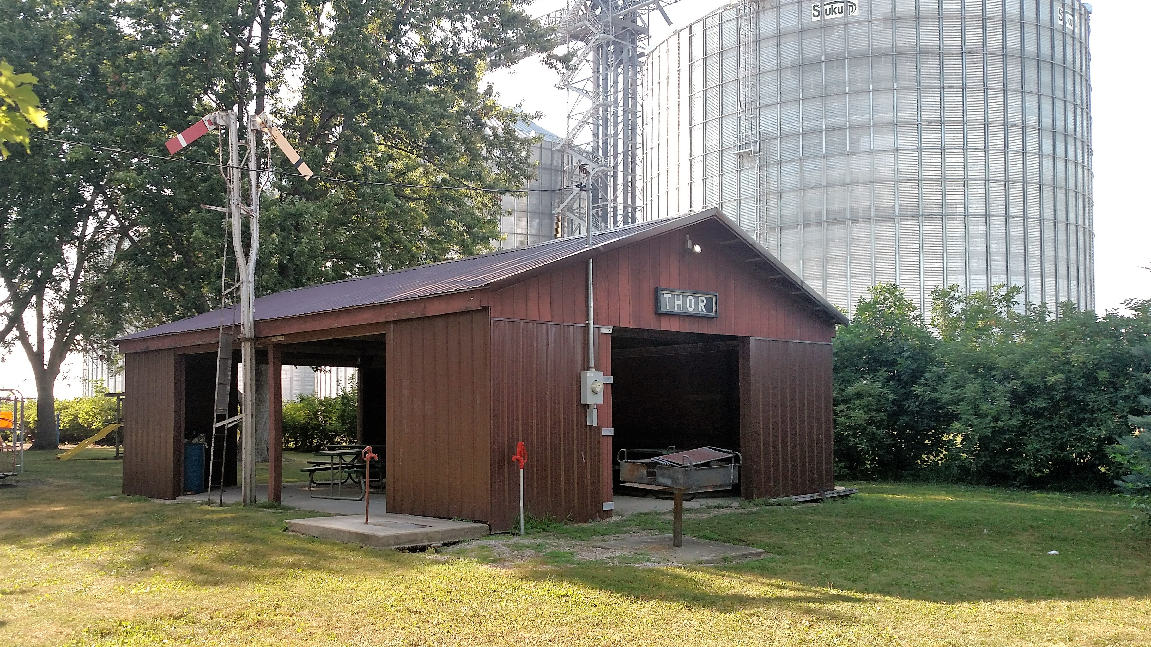 Park along the former railroad line (now Three Rivers Trail) and park pavilion with former railroad signage in Thor